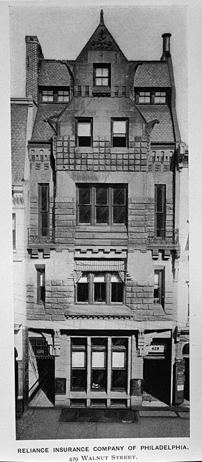 Reliance Insurance Company of Philadelphia (1881-82), 429 Walnut Street, Philadelphia, PA, by Furness & Evans, architects. Photograph from George W. Engelhart, Philadelphia, Penna: The Book of Its Bourse and Co-operating Bodies (1898-99)